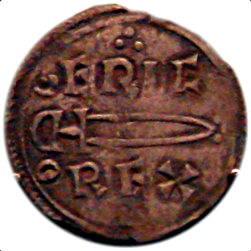 Eric_Bloodaxe_Norse_king_of_York_952_954